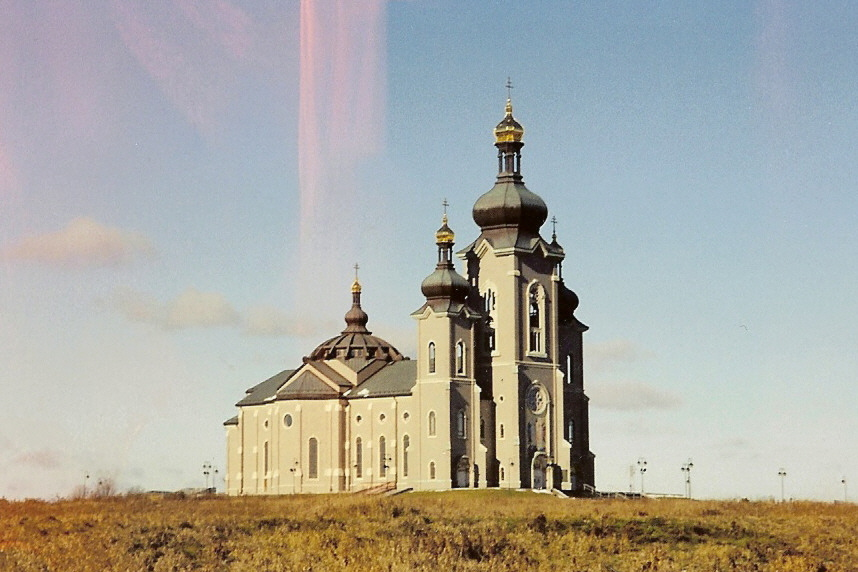 The Cathedral of the Transfiguration is a Slovak Byzantine Rite Roman Catholic former cathedral located in the community of Victoria Square in Markham, Ontario, Canada. The cathedral was built in a rural area north of the city of Toronto and was built to serve Slovak Catholics throughout the Greater Toronto Area. The Cathedral was conceived and funded by Stephen B. Roman, a Slovak immigrant to Canada who had built up the Denison Mines corporation. Roman both funded and designed the building, modeling the structure on the church in Velky Ruskov, the Slovak village he was raised in. The cathedral was built on a donated portion of his Romandale estate. Among its features is the world's largest three bell carillon, with the French made bells by the Fonderie Paccard, weighing 32,000 pounds, and 300 cm diameter. The mosaics are reputed to contain about 5 million pieces. The cathedral was built to hold 1000 worshipers serving a community of about 5000 Byzantine Rite Catholics in the GTA and 35,000 across Canada. The central tower rises 63 metres (about 20 storeys) and is topped by a gold onion dome. The church was designed by Donald Buttress, a renowned architect whose claim to fame is overhauling Westminster Abbey. It is a significant landmark east of the 404 highway.